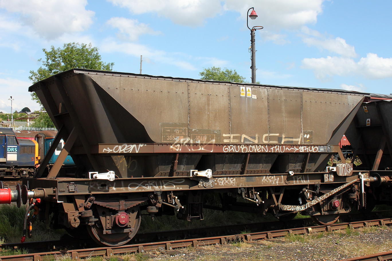 HMA 355798 at Barrow Hill, in the care of The National Wagon Preservation Group